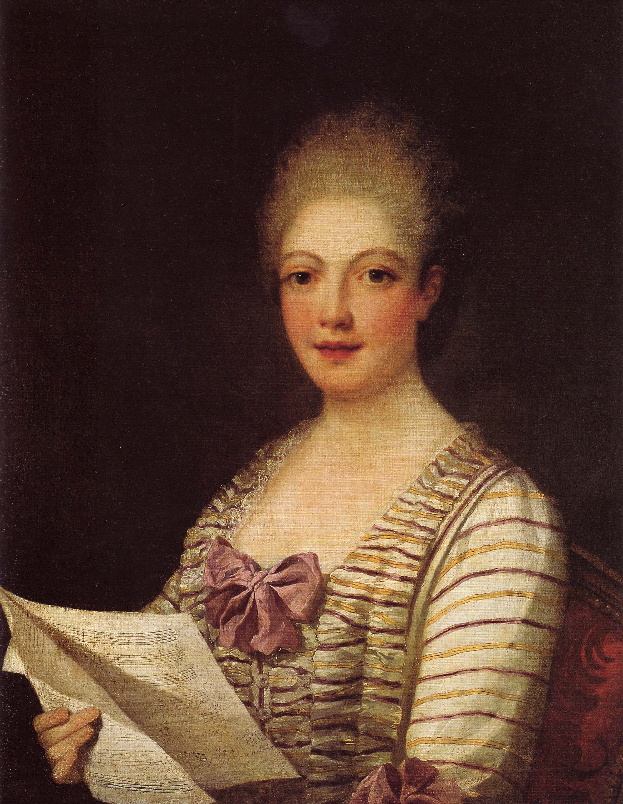 Lucrezia Agujari (1746-1783) aka La Bastardella ("the little bastard"), an Italian virtuoso opera singer.